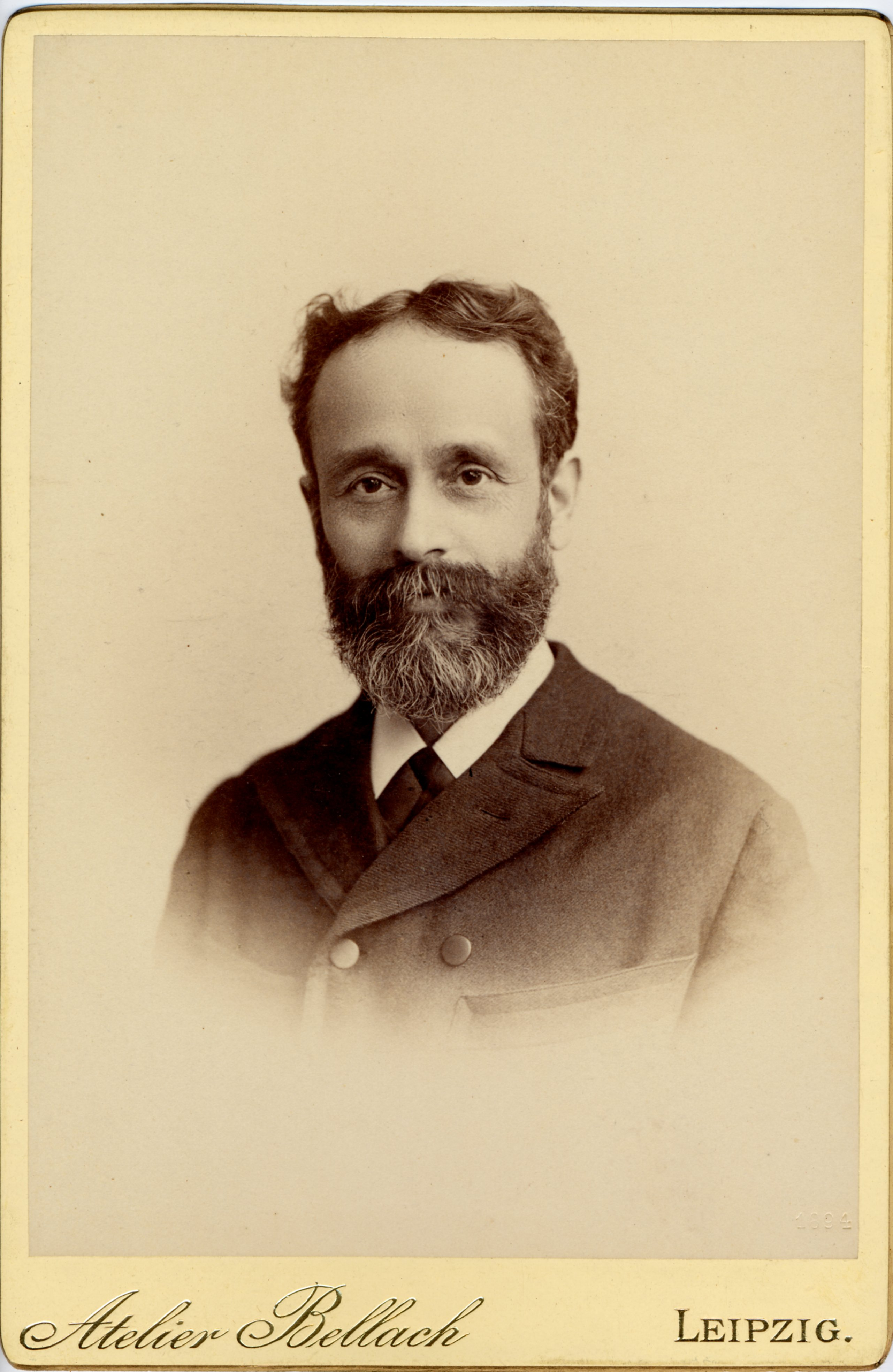 photogravure of Caspar René Gregory (1846-1917)